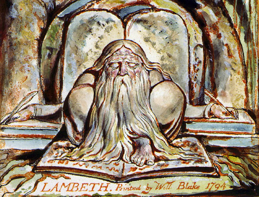 Urizen by William Blake derived from Copy G of the Book of Urizen